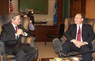 On November 10, 2005, Senator Norm Coleman met with Judge Samuel Alito to discuss his nomination for Supreme Court Justice.